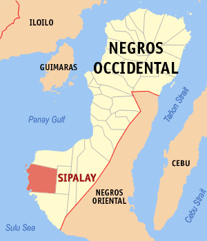 Map of Negros Occidental showing the location of Sipalay